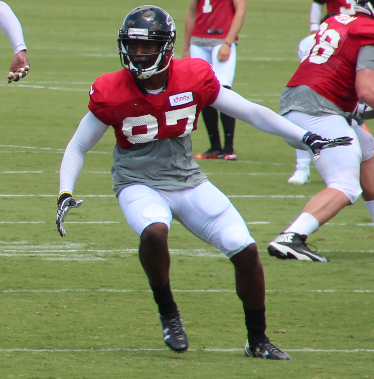 Devin Fuller at training camp, 2016